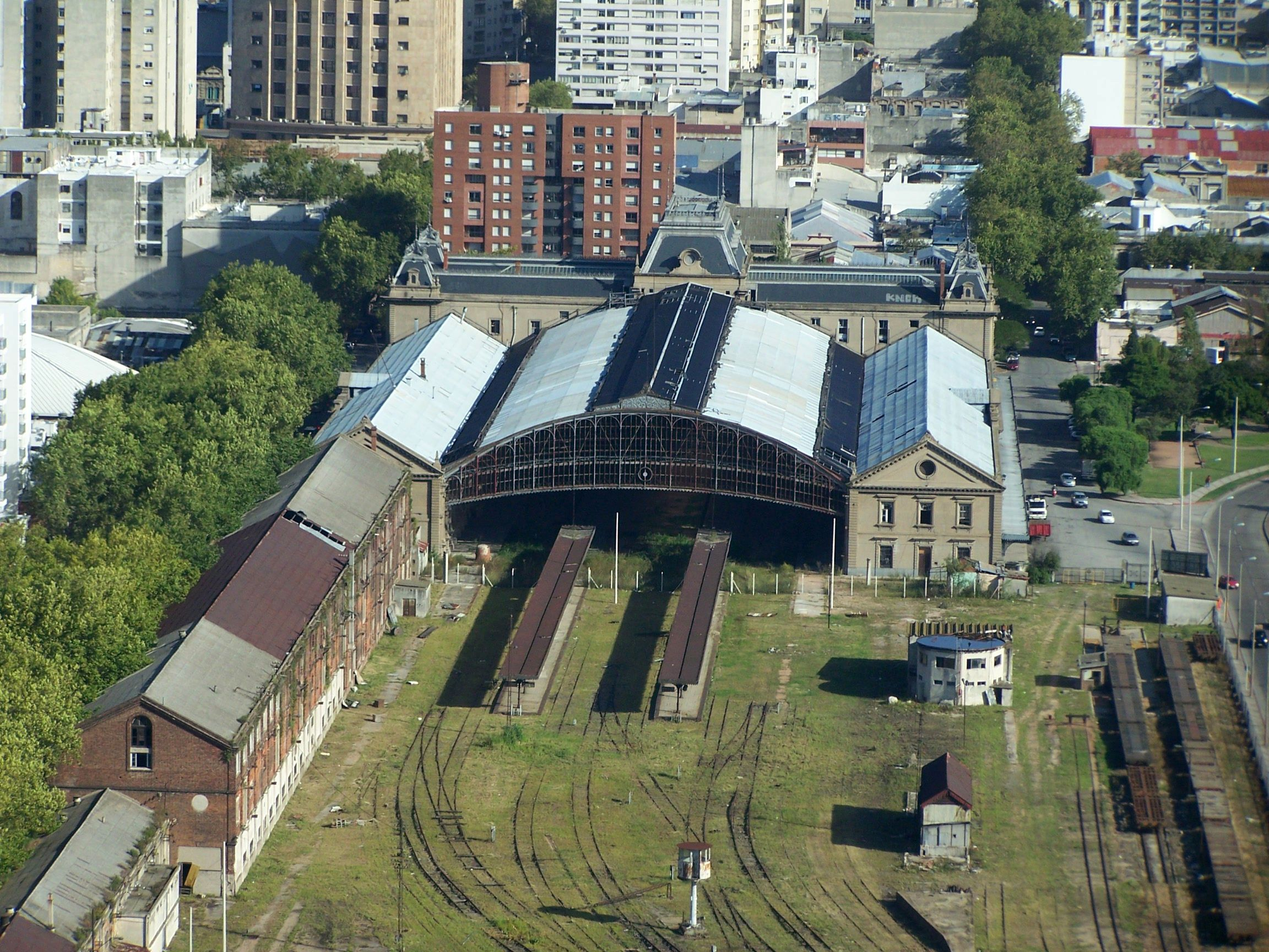 The old central station of Montevideo (Uruguay), seen from the Antel tower